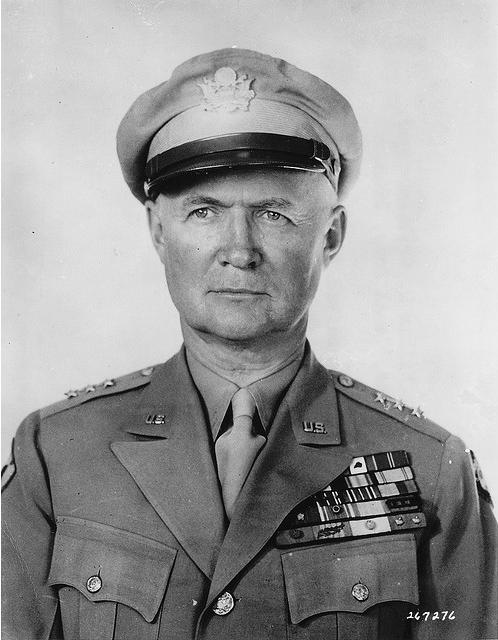 Willis Dale Crittenberger (December 2, 1890 – August 4, 1980) was a United States Army officer whose career served as a World War II combat commander of IV Corps (United States) during the later part of Italian campaign from 1944 to the end of the war.